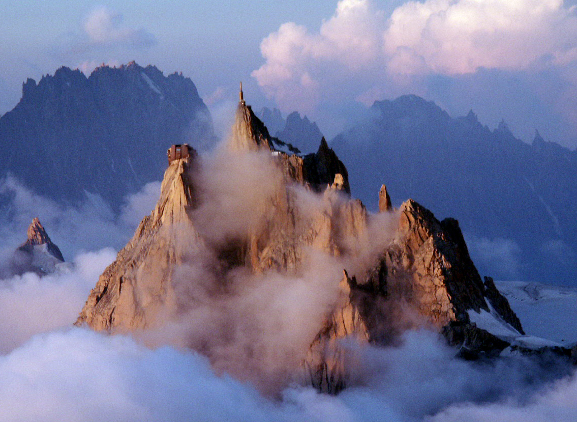 Aiguille du Midi (France, Chamonix) in summer after sundown, seen from the Mont Blanc refuge